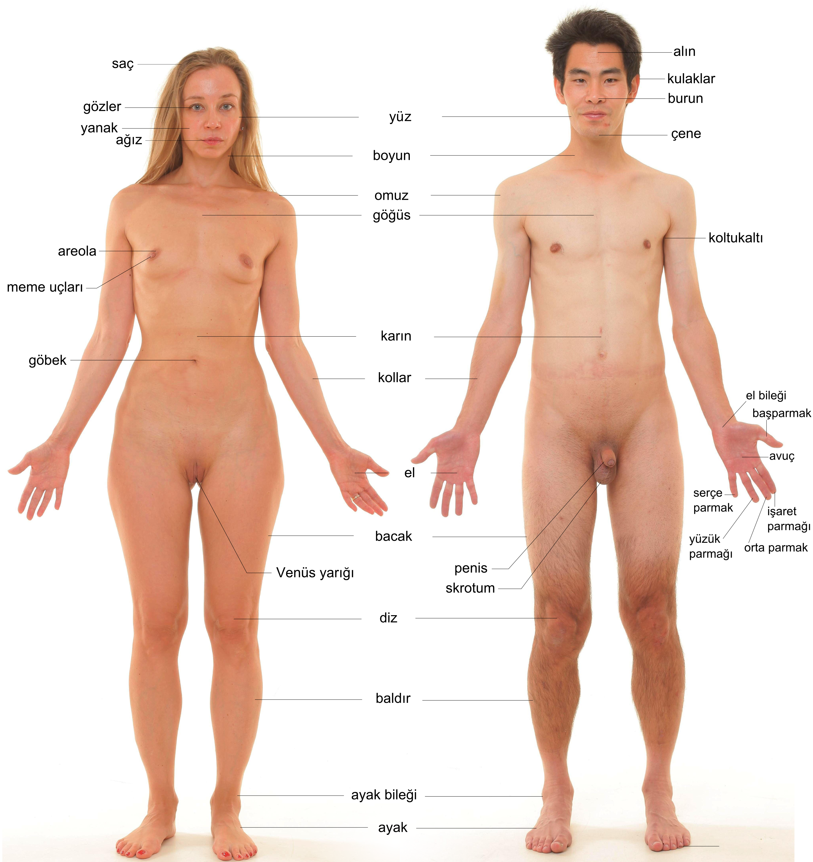 Naked female and male human body with labels.